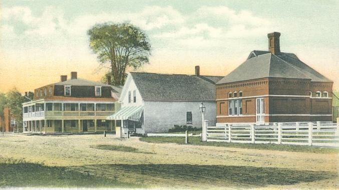 Public Library and Main Street, Hancock, NH; from a c. 1905 postcard.